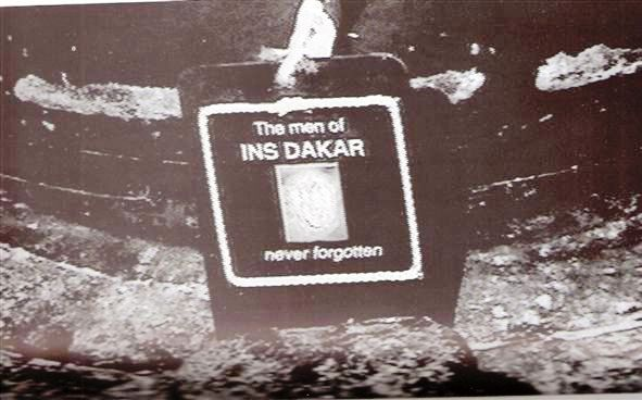 Memorial plate positioned on the bow of Dakar's wreck by Nauticos llc.